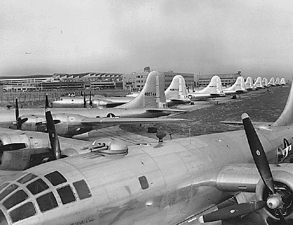 B-29s on the ramp awaiting delivery at Boeing-Wichita, 1945